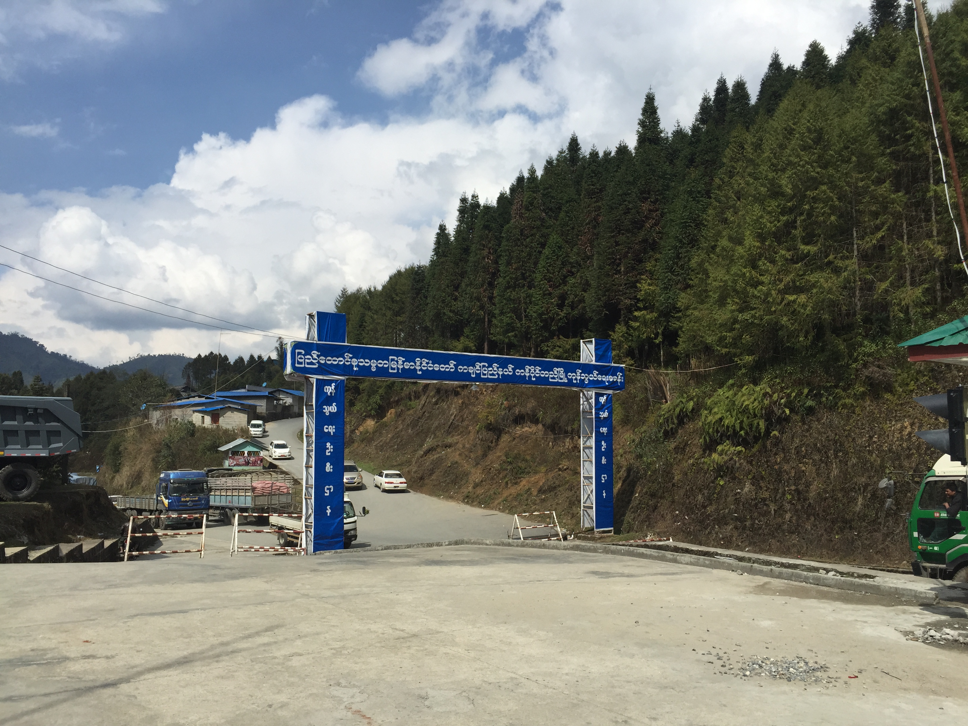 Sino-Burmese Border Kachin